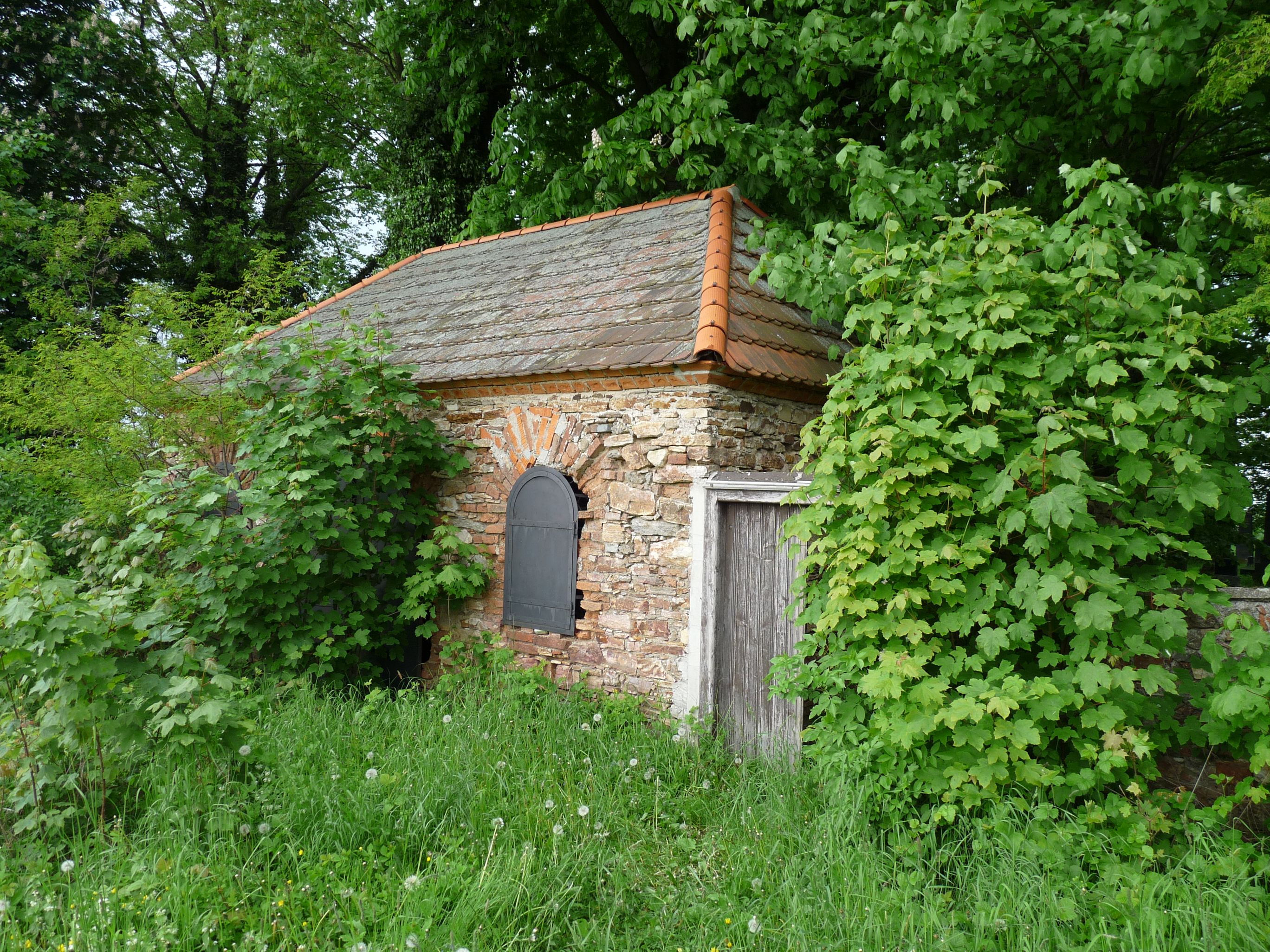 Ceremonial hall in the Jewish cemetery near the municipality of Divišov, Benešov District, Central Bohemian Region, Czech Republic.